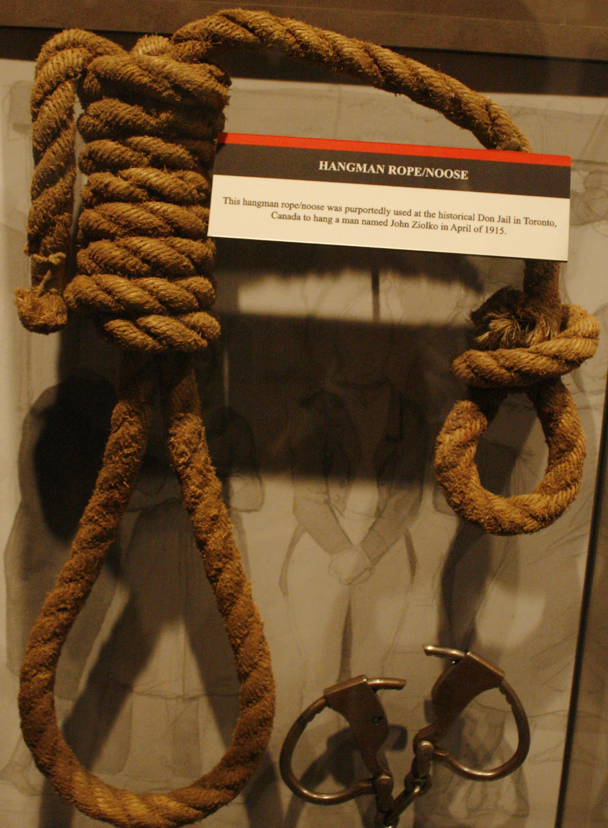 Hangman rope displayed at the National Museum of Crime & Punishment, Washington, D.C. “ Hangman Rope/Noose This hangman rope/noose was purportedly used at the historical Don Jail in Toronto, Canada to hang a man named John Ziolko in April of 1915. ”